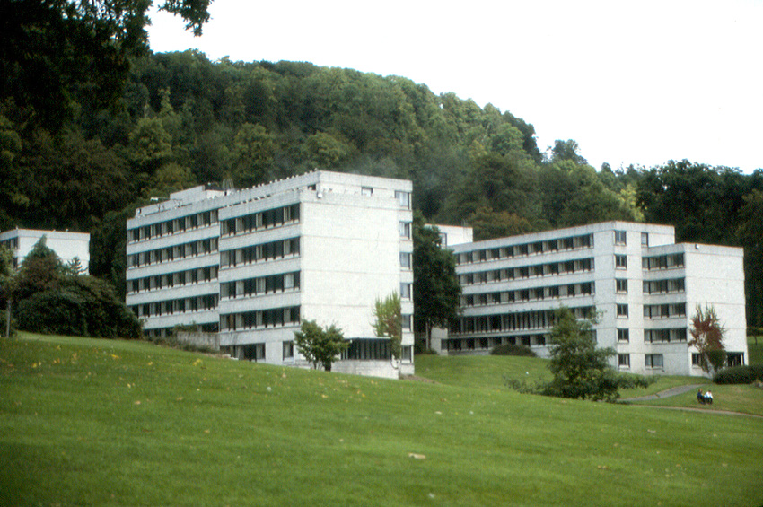 Dormitories at the University of Stirling. The university was founded in 1967, and was still growing in 1990. It was the first university founded in Scotland since the University of Edinburgh, in 1532.